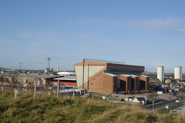 Pittodrie Stadium viewed from Broad Hill